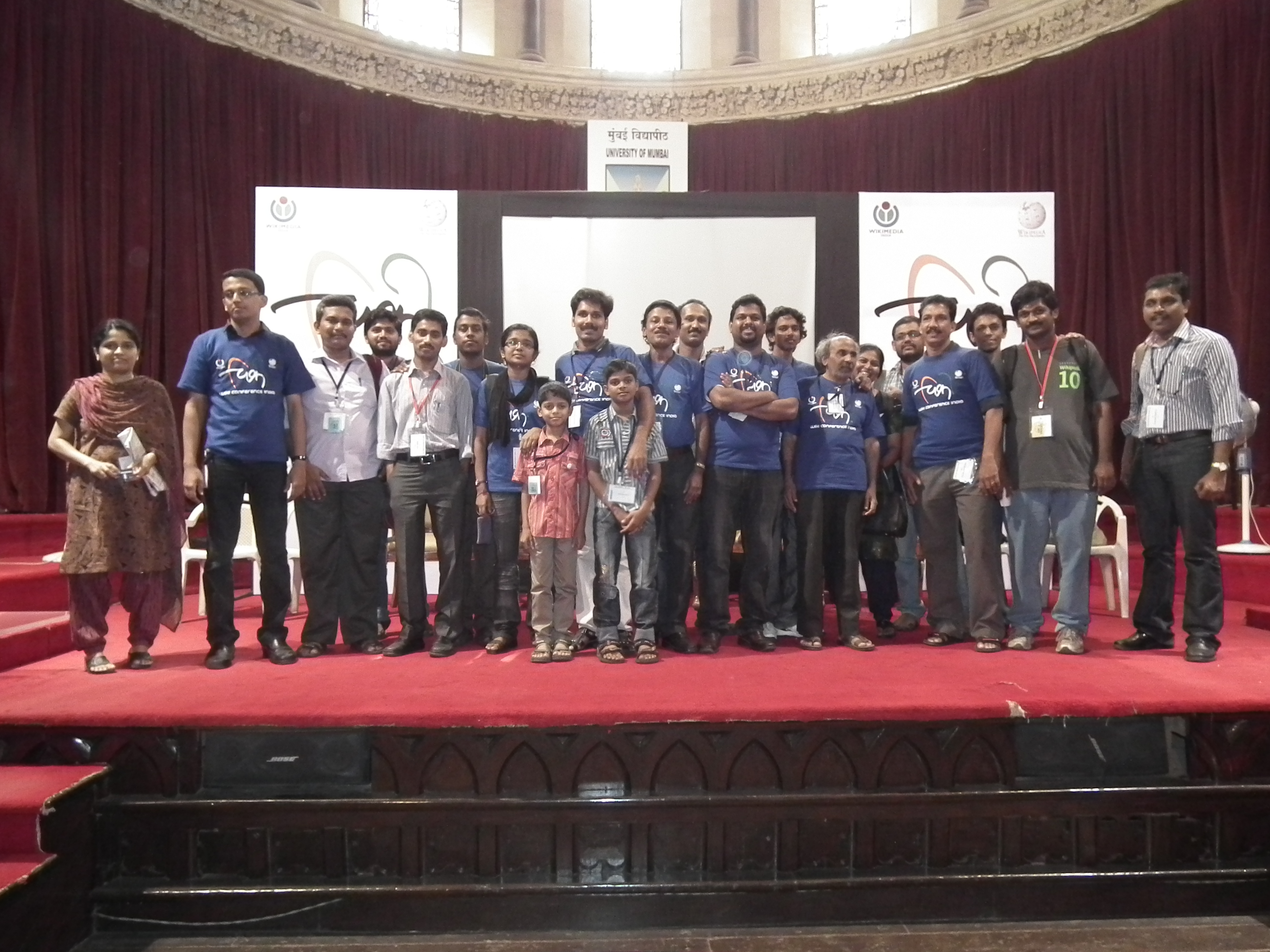 Malayalam Wikipedians in WikiConference India 2011.